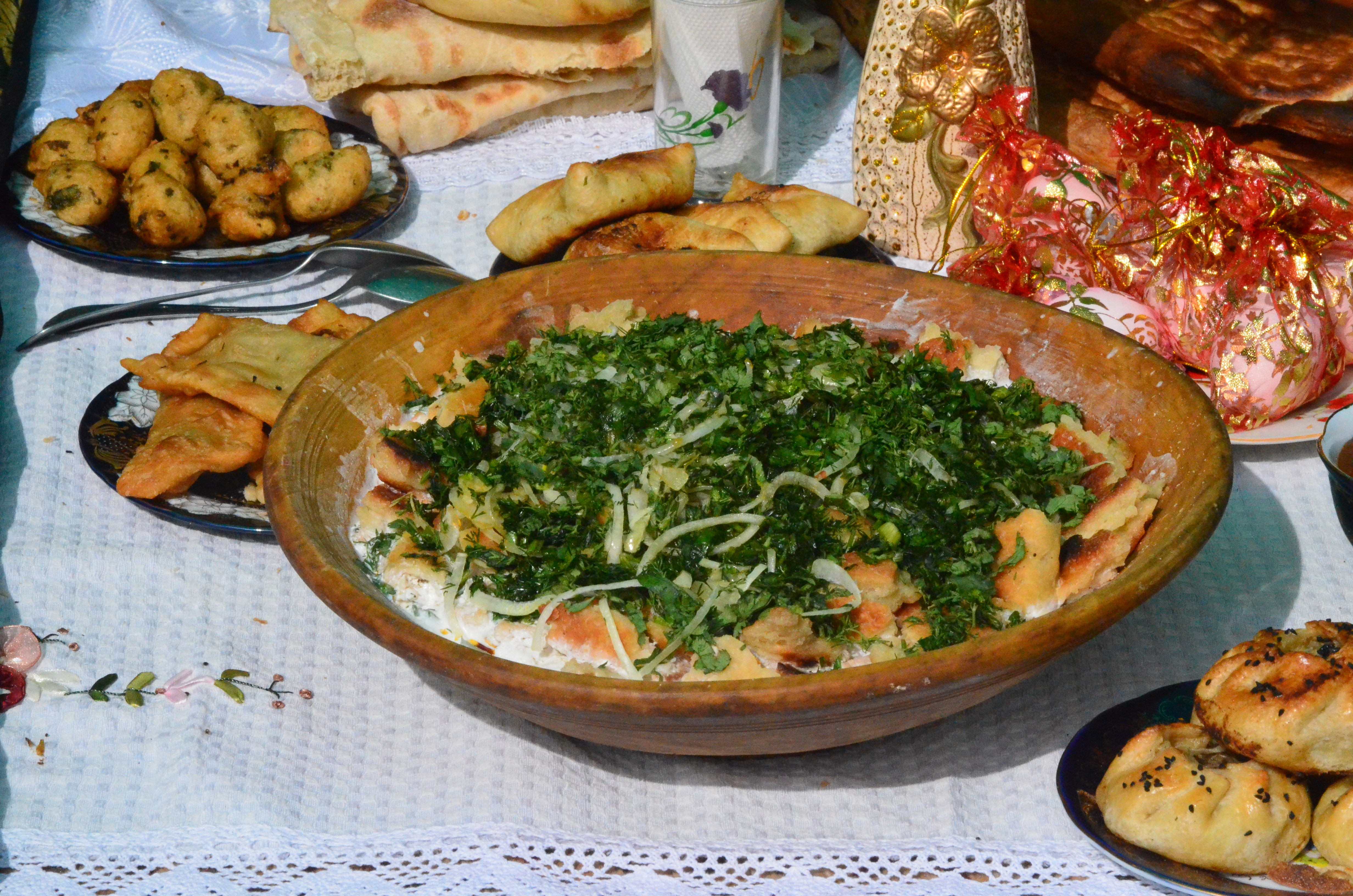 Kurutob (Qurutob) one of the national meals in Tajikistan